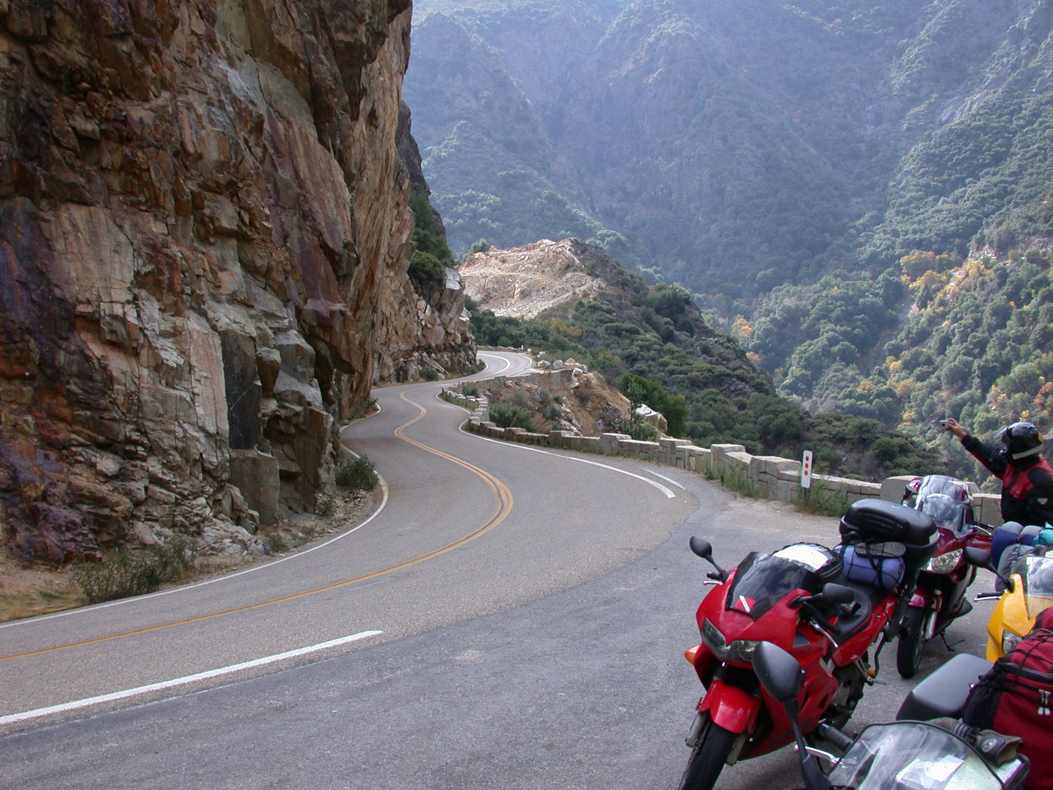 Taken by User:Jamesb01 in October 2005. (Nikon 995)